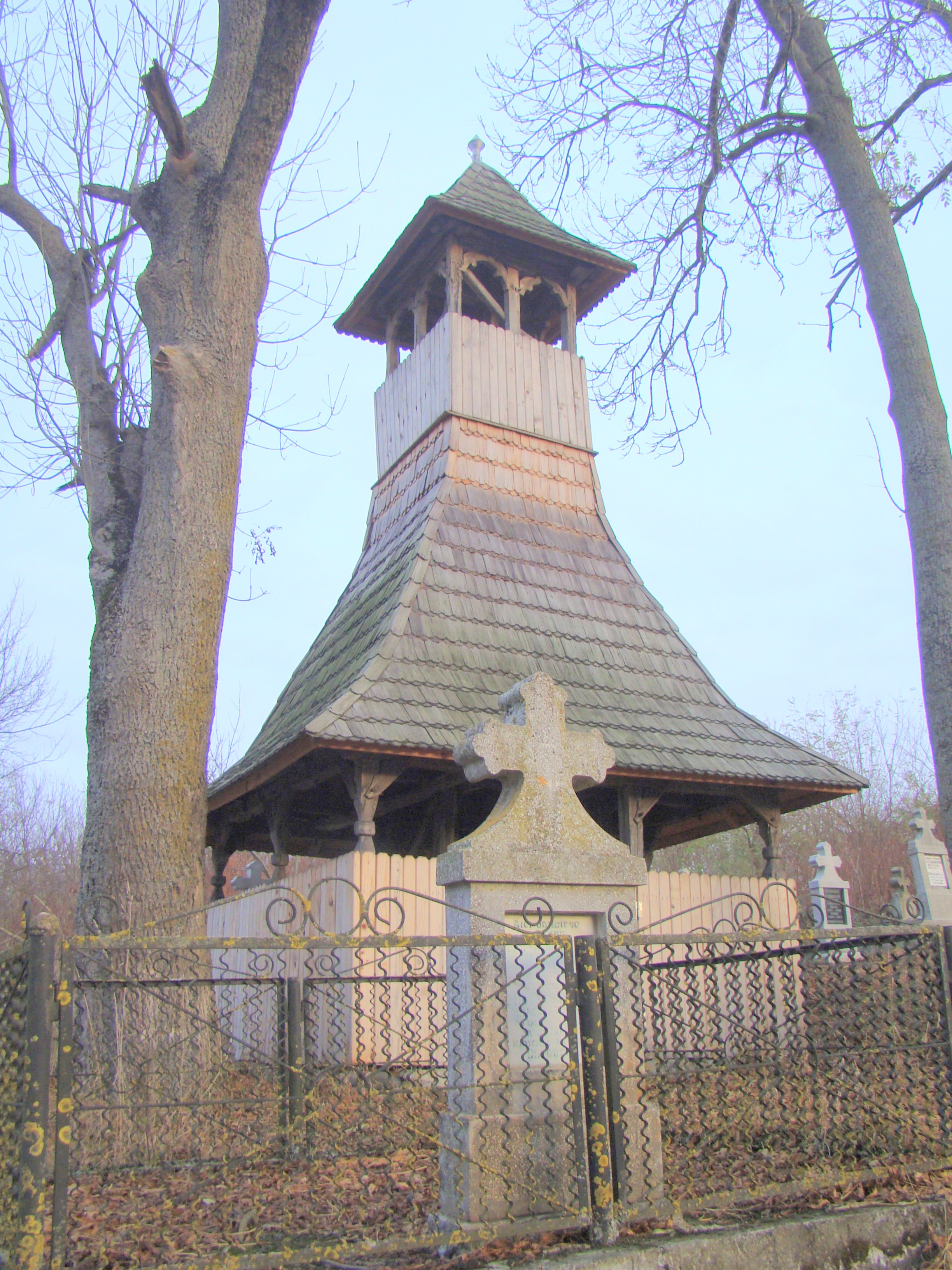 Belfry of the wooden church in Petea, Mureş county, Romania